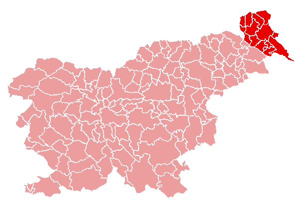 Contemporary districts in Slovenian region of Prekmurje